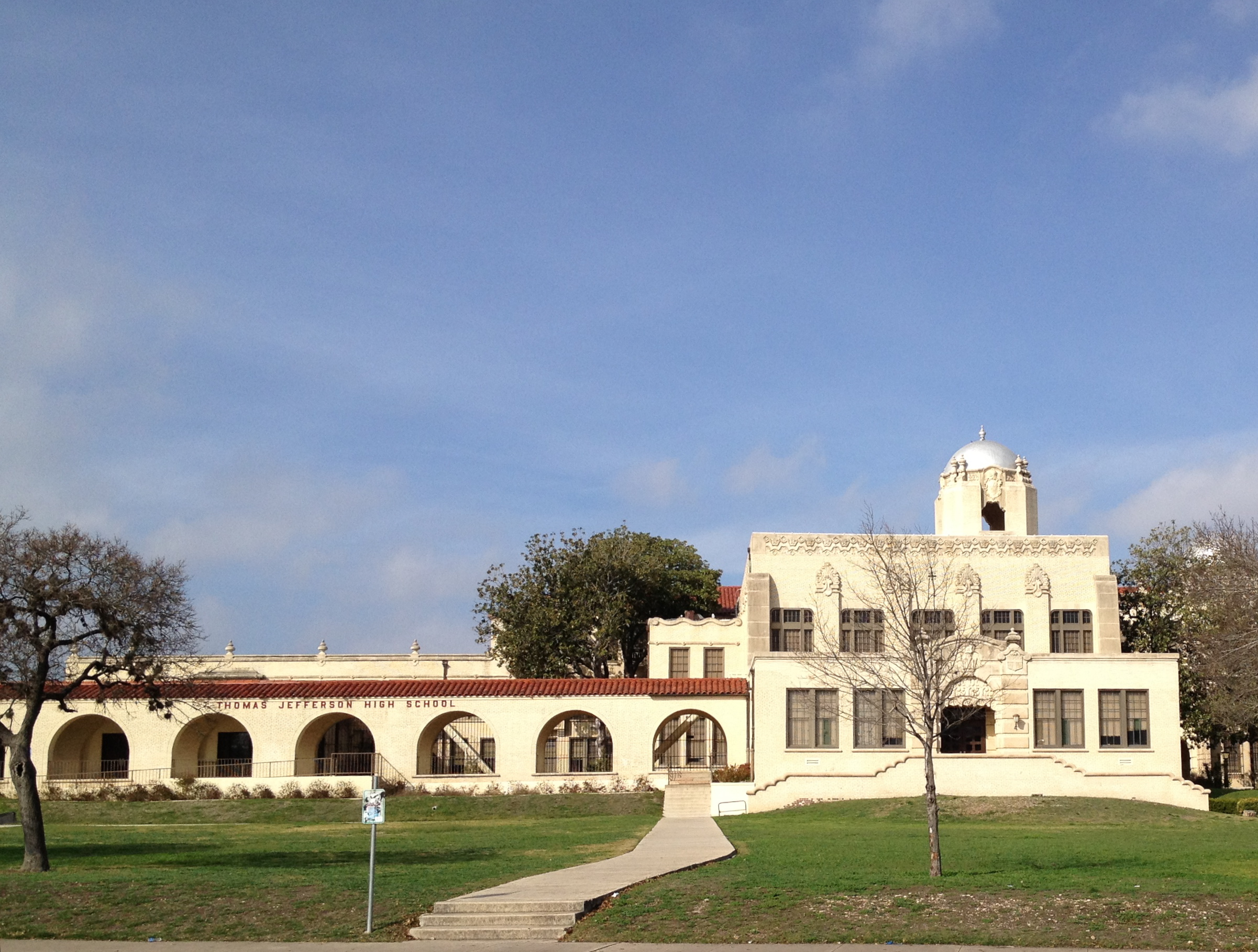 The front of Thomas Jefferson High School in San Antonio, TX taken from Donaldson Avenue, January 22, 2012.